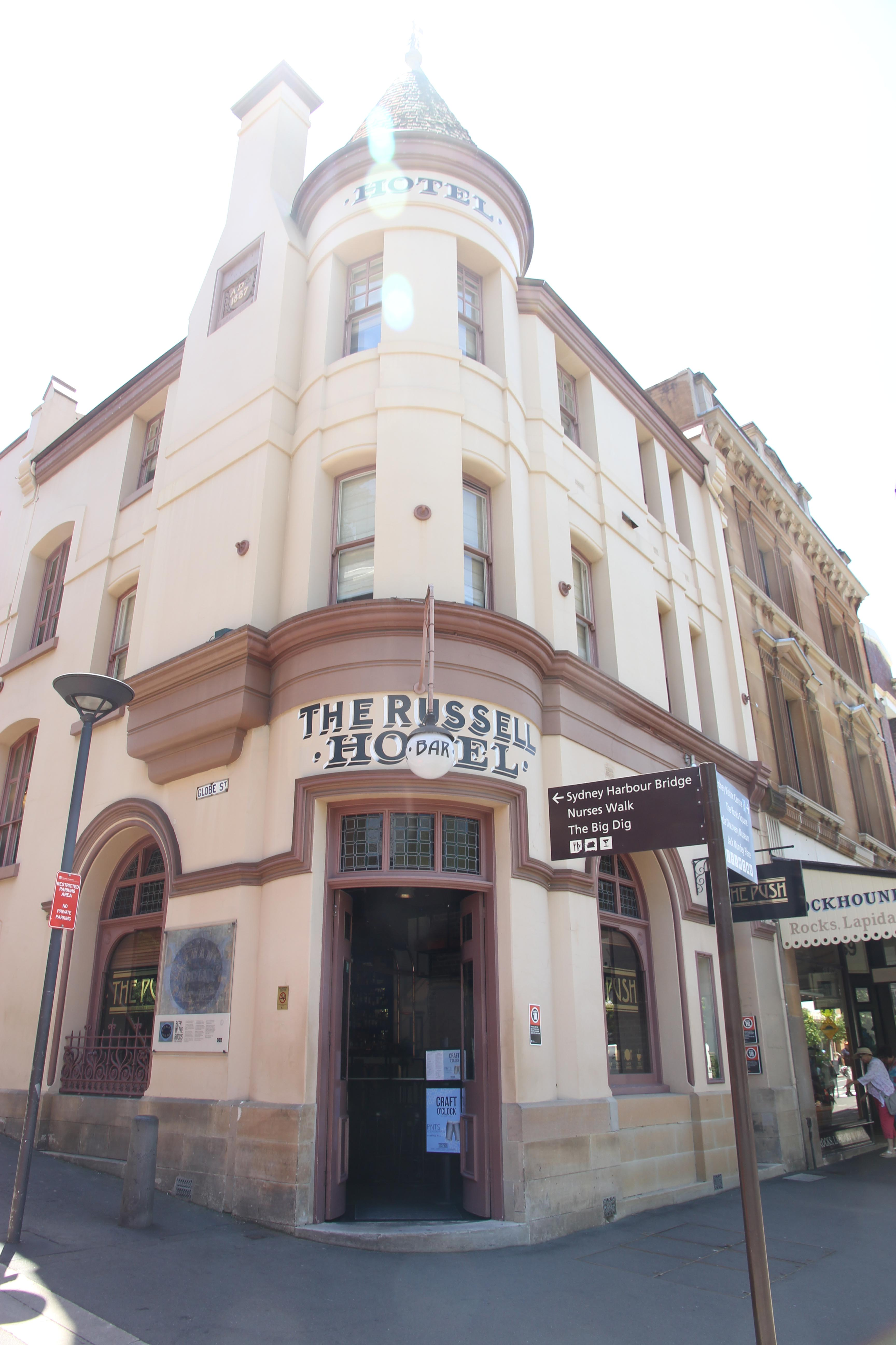 Russell Hotel, The Rocks, in the City of Sydney, New South Wales, Australia